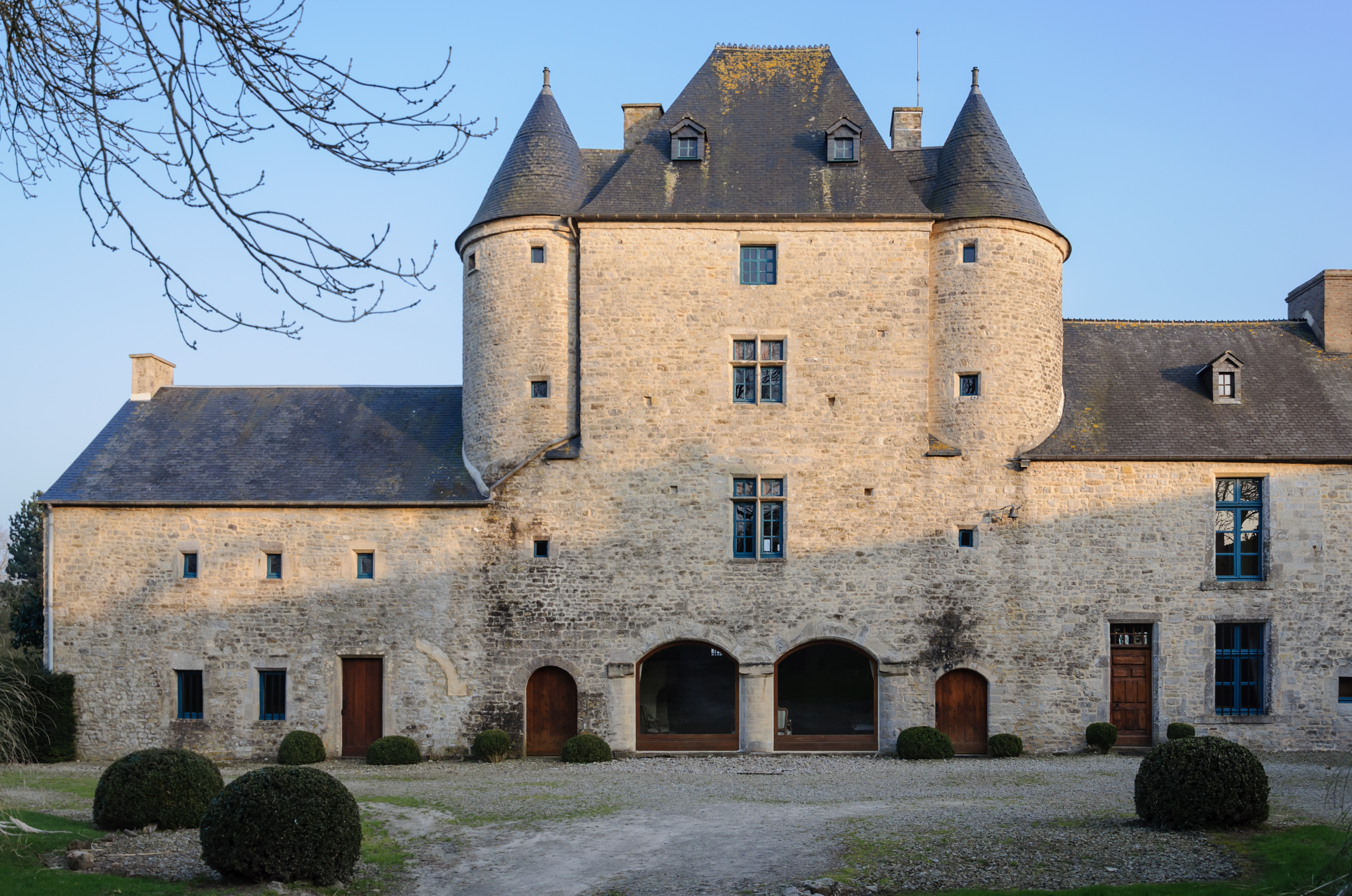 Castle of Sainte-Marie-du-Mont, Manche, Basse-Normandie, France